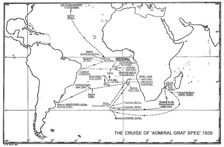 Taken from HMSO report into the sinking of the Graf Spee, 1940.